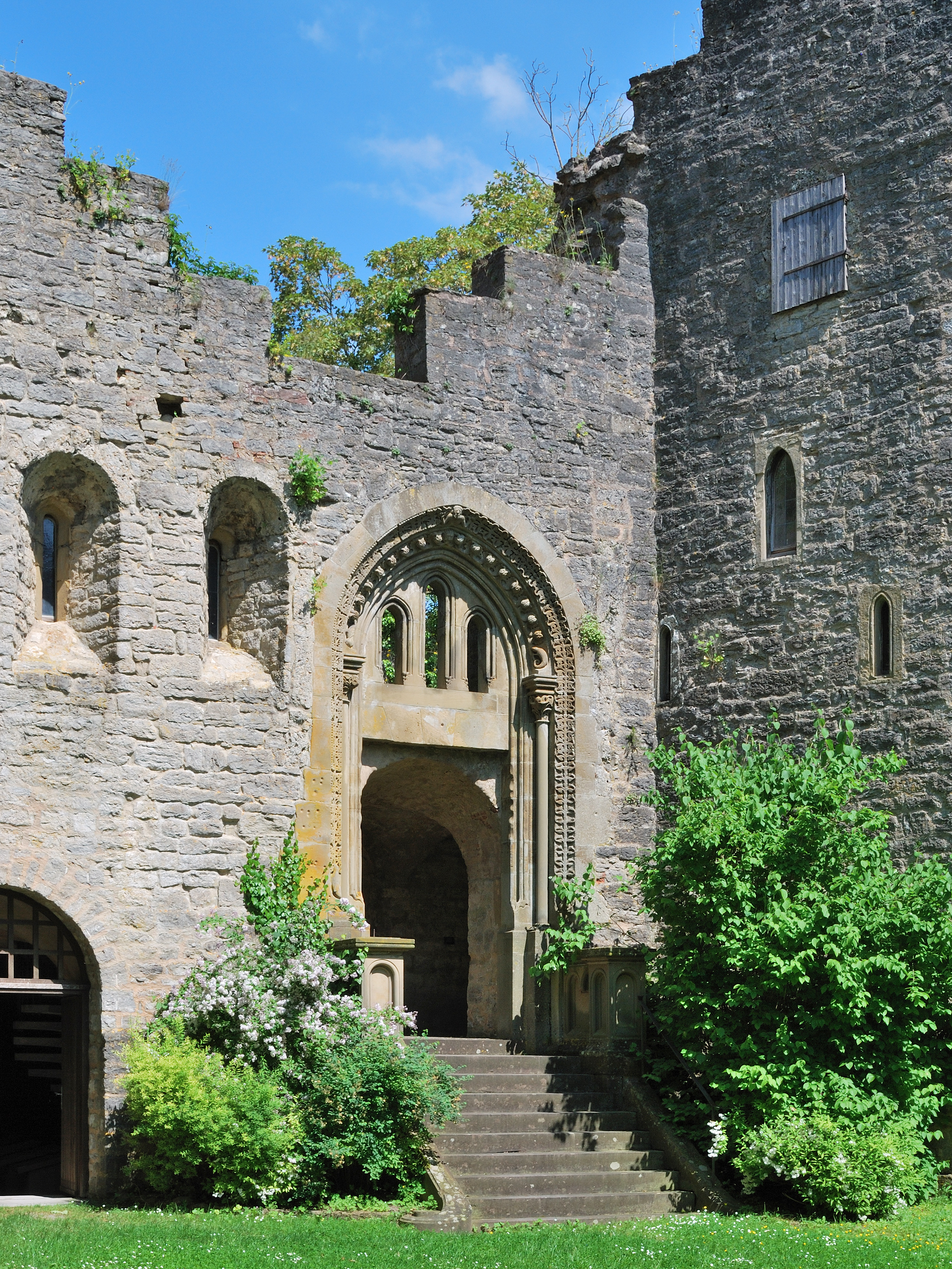 Courtyard of the castle ruin Krautheim. District Hohenlohe in Germany.